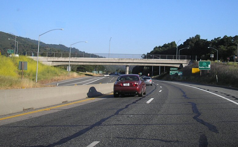 Photo by John Pilge.